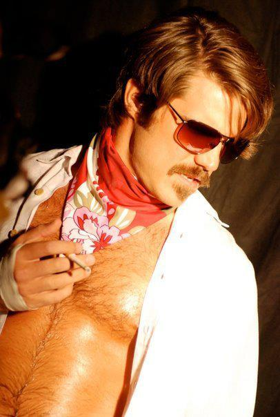 Professional Wrestler Joey Ryan